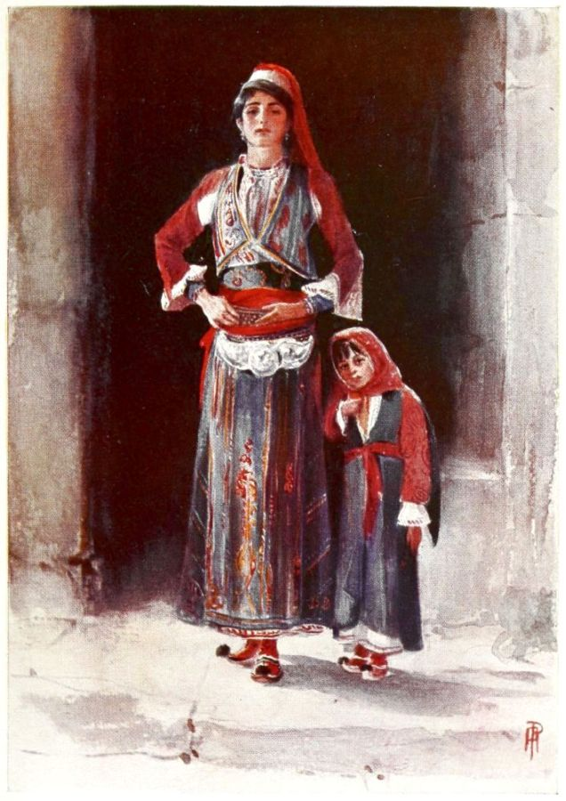 Albanian Peasants costumes - illustration by Percy Anderson for Costume Fanciful, Historical and Theatrical, 1906